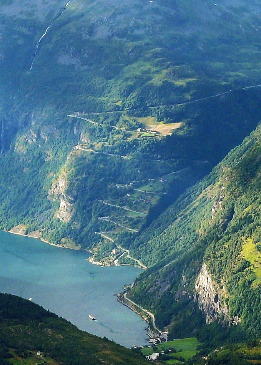 Ørnevegen as seen from Dalsnibba in 2009 August.